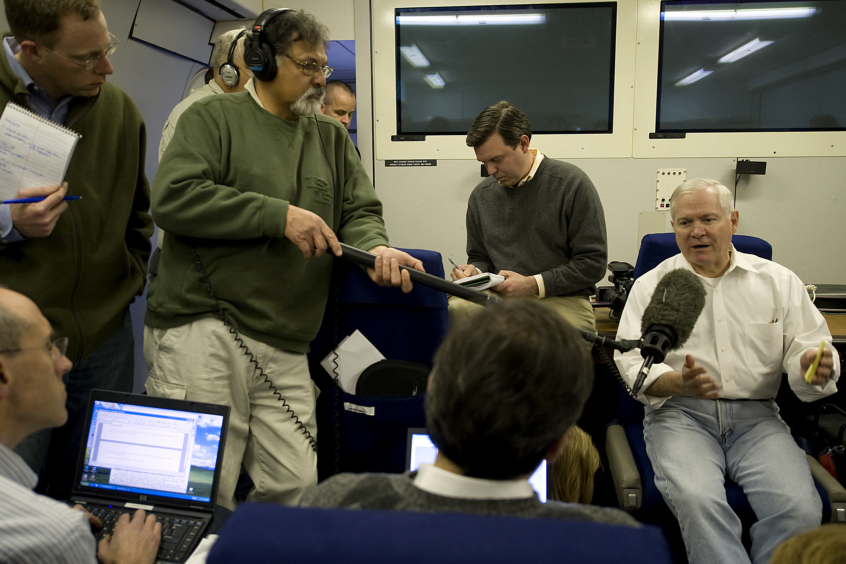 Defense Secretary Robert M. Gates speaks with members of the press on an E-4B aircraft traveling overseas, March 7, 2010. The secretary told reporters the Iraqi elections show the progress that's been made there.